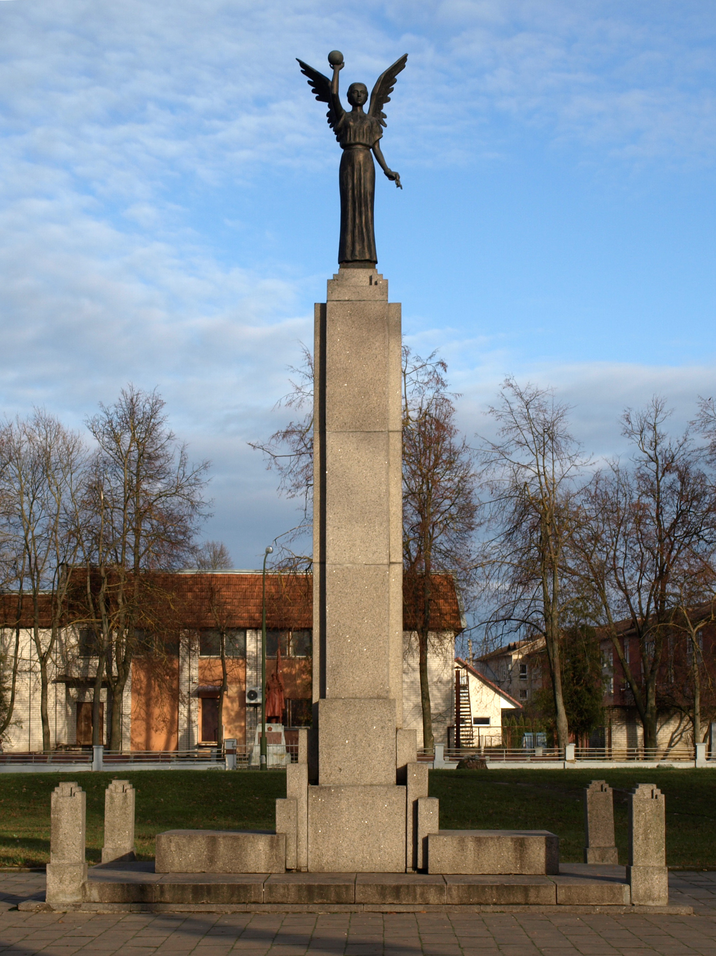 Statue of freedom in Žiežmariai, Kaišiadorys district